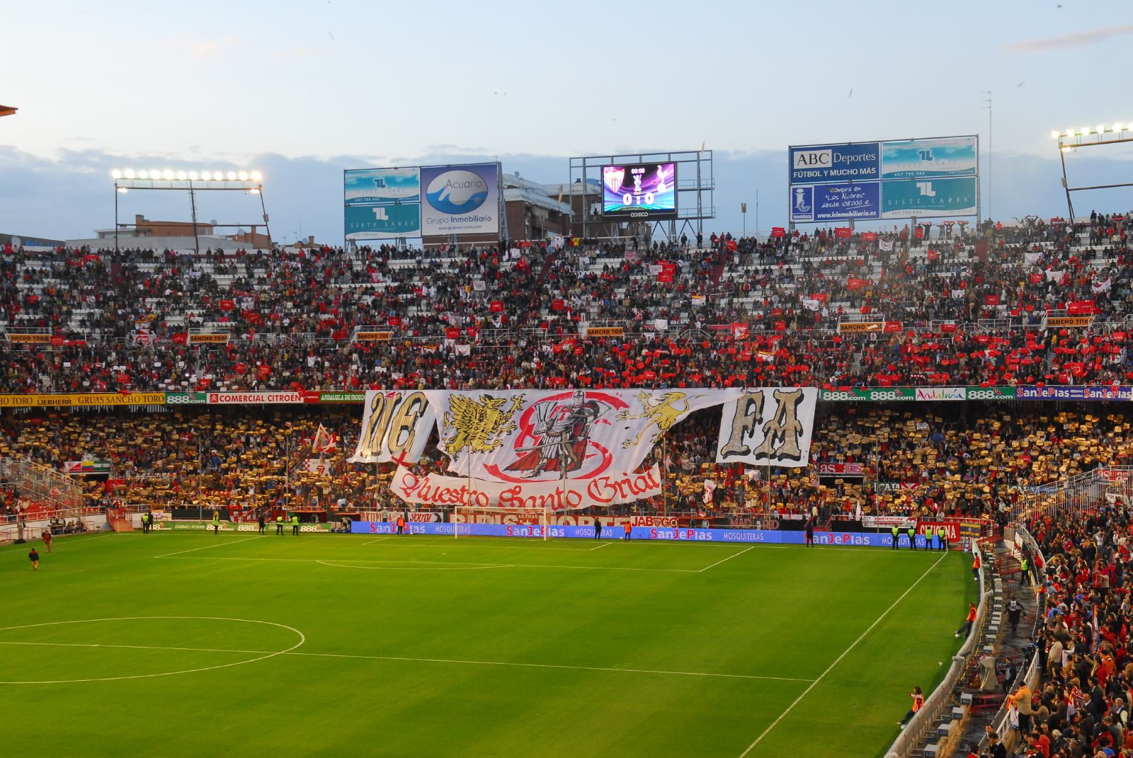 Estadio Ramón Sánchez Pizjuán, Sevilla, Spain. View of the north stand (Gol Norte).